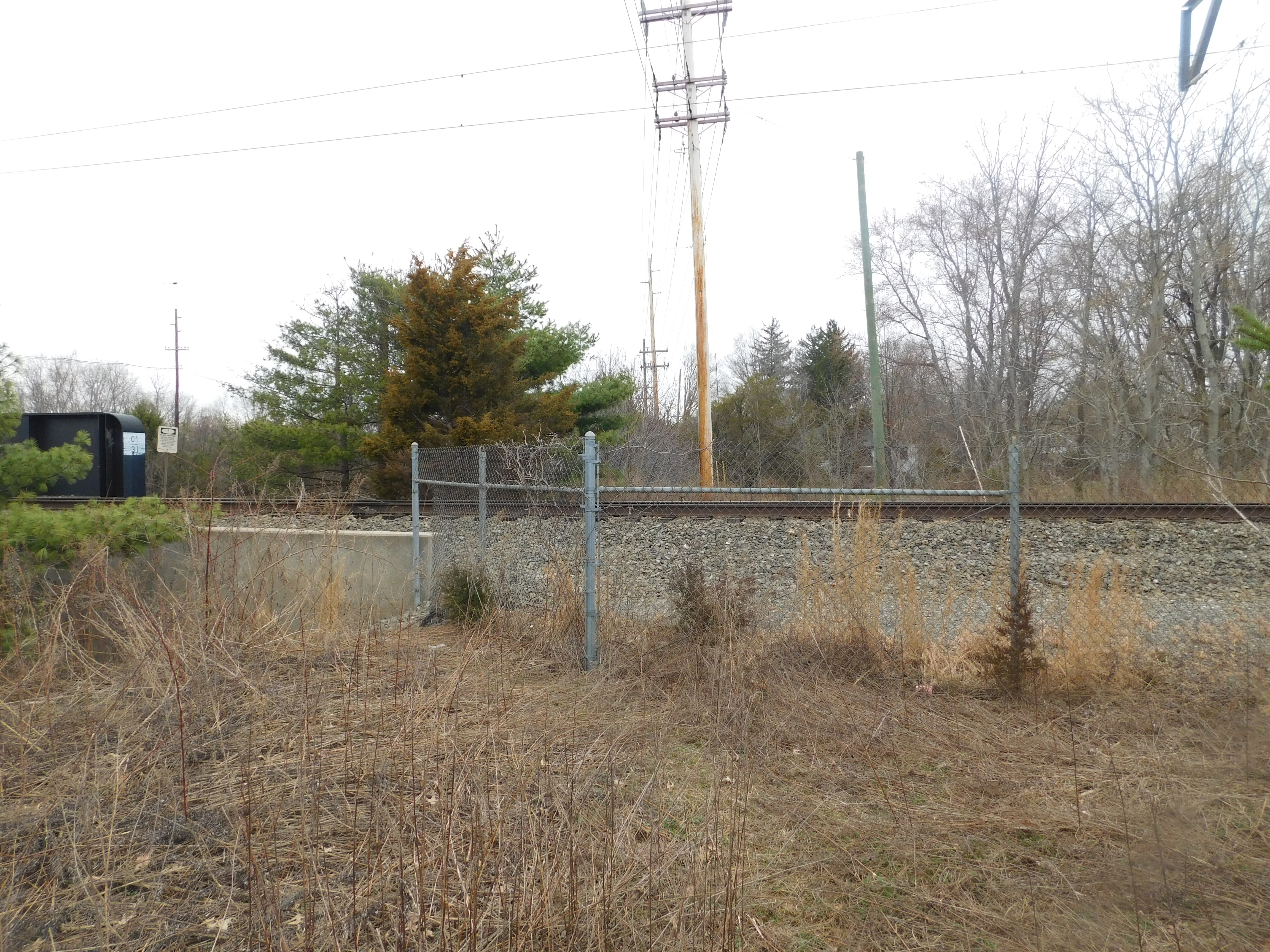 The former Penns Neck station on the Princeton Branch of the Pennsylvania Railroad in March 2016.